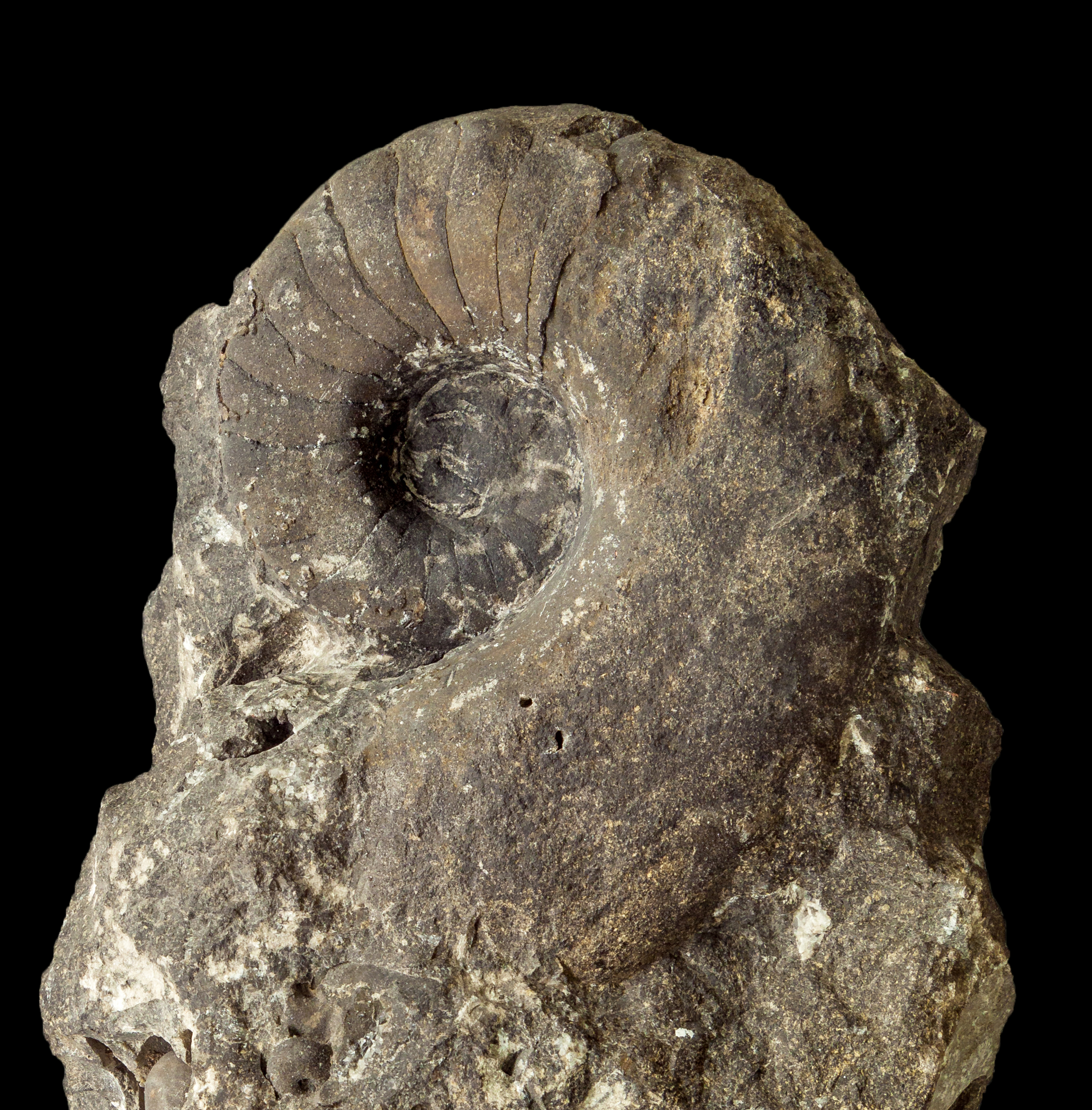 Metacoceras discoideum Meria; Bellerophon Formation, Upper Permian, Urtijëi; Museum de Gherdëina, Urtijëi, South Tyrol, Italy.